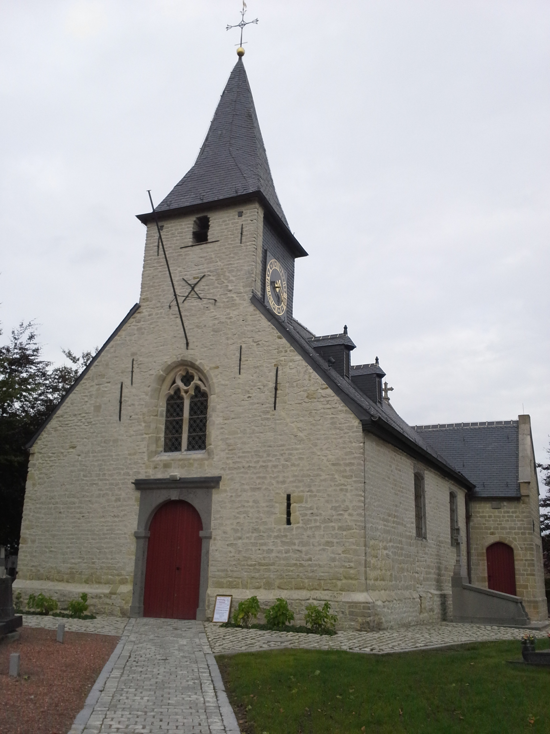 Church Onze-Lieve-Vrouw Hamme Merchtem Belgium